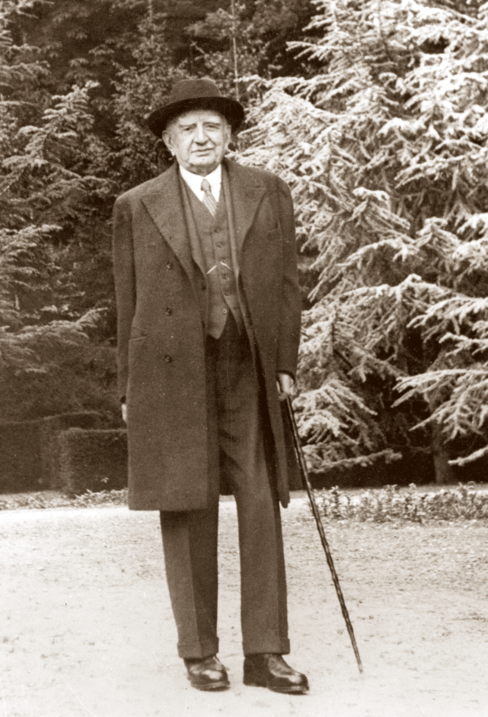 Calouste Gulbenkian in his retreat at Les Enclos